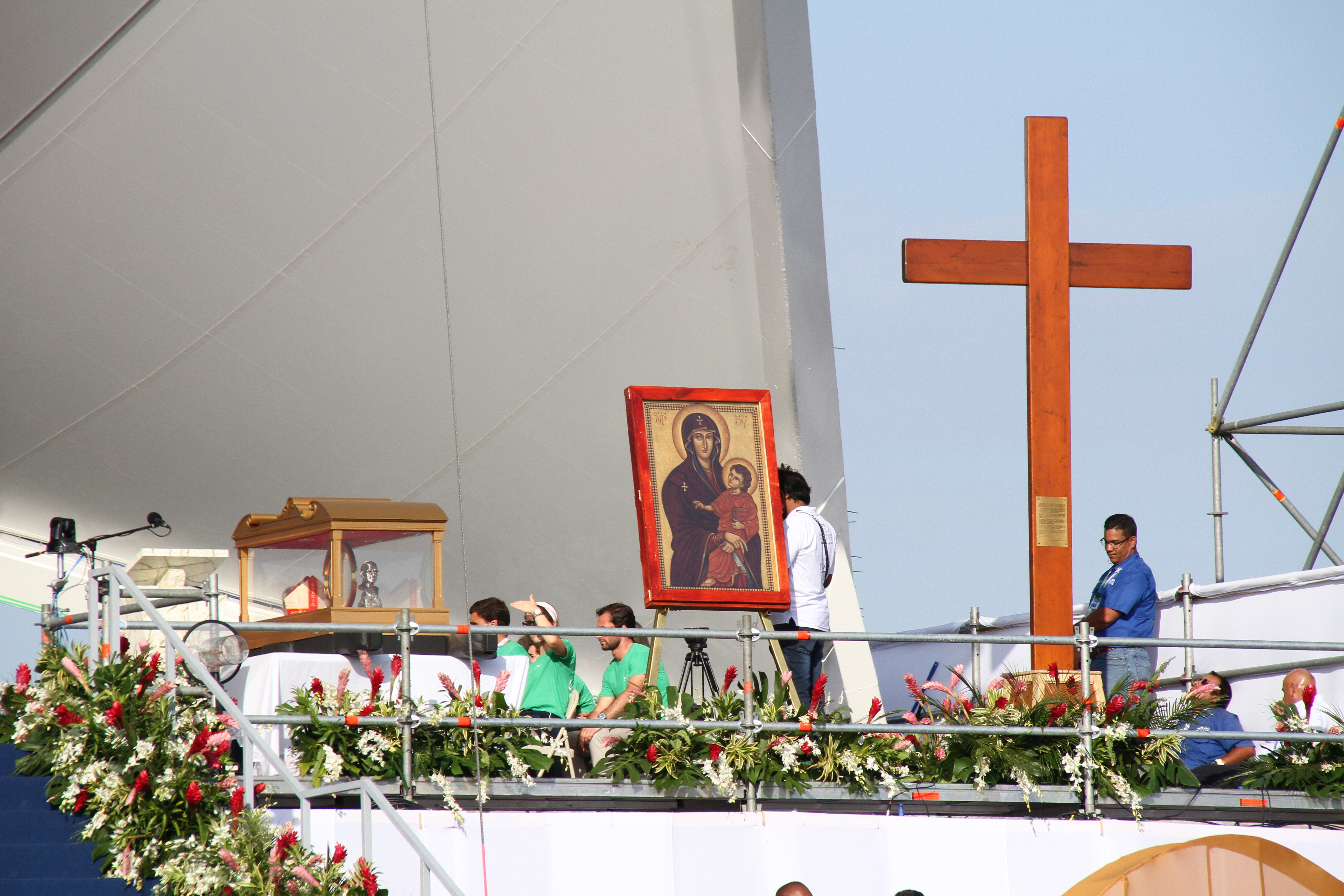 Concluding Mass